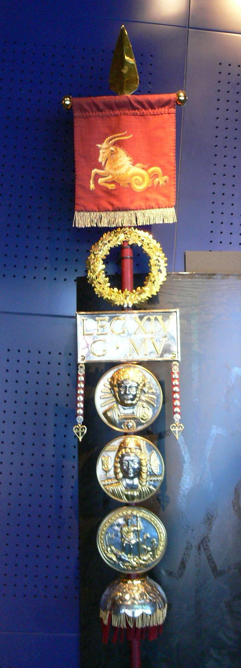 Petronell ( Lower Austria ). Roman Museum: Signum of the Legio XIV Gemina Martia Victrix ( replica ).